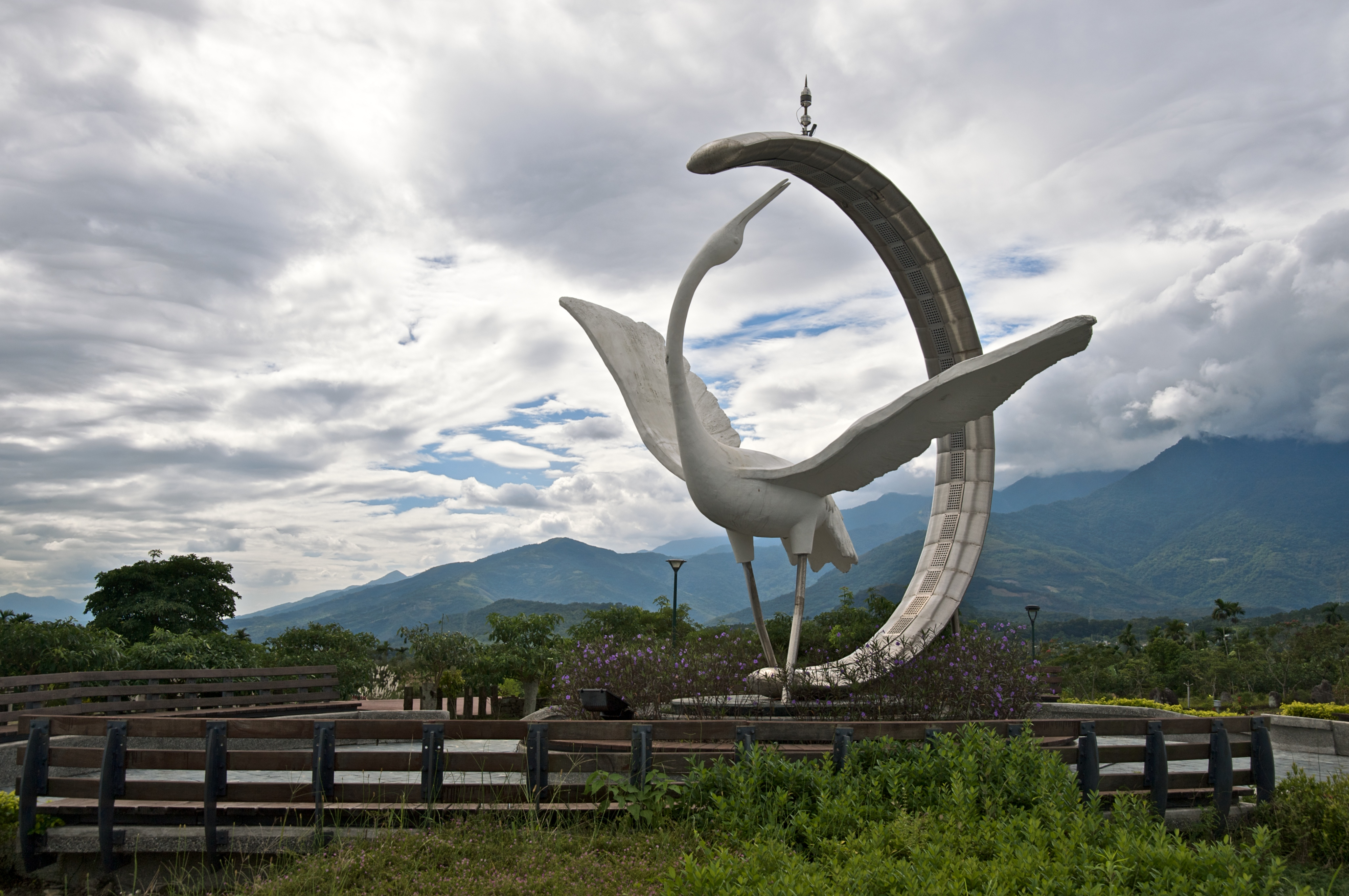 TienHe Tea Mascot Statue in the famous WuHe tea-producing area in Ruisui, Wuhe, Taiwan